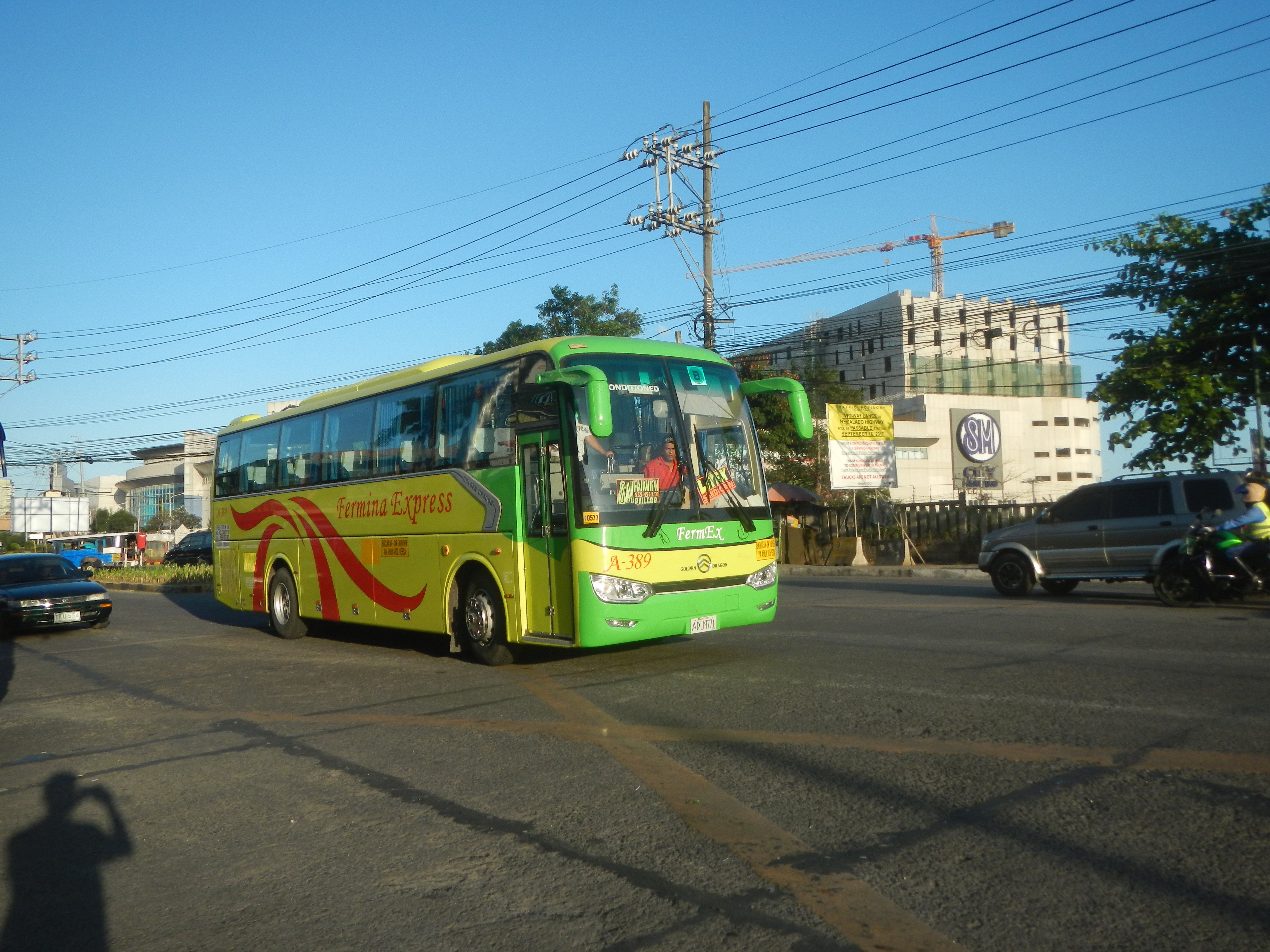 Saint Maximilian Mary Kolbe Parish Church (Marytown Circle, Greenfields I Subdivision, Kaligayahan, Quezon City) to SM City Fairview and Bus Stop along Quirino Highway (Malaria, North Caloocan - Kaligayahan, Novaliches, Quezon City) Quirino Highway (Novaliches, Quezon City section) of the Quirino Highway starting from Legislative districts of Quezon City District 5, Kaligayahan, 14°44'5"N 121°2'47"E Novaliches,Quezon City Novaliches, District, Barangays of Quezon City, Quezon City (Note: Judge Florentino Floro, the owner, to repeat, Donor Florentino Floro of all these photos hereby donate gratuitously, freely and unconditionally all these photos to and for Wikimedia Commons, exclusively, for public use of the public domain, and again without any condition whatsoever).